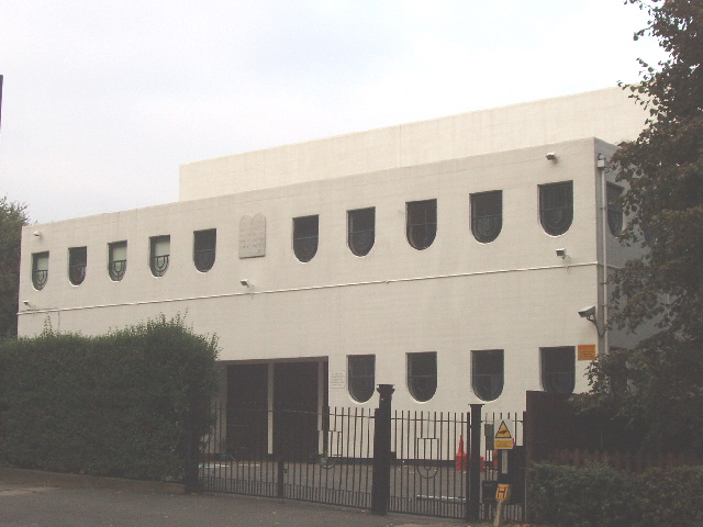 Dollis Hill and Gladstone Park Synagogue, Parkside, London NW2, seen from the south. A concrete building designed by Walter Landauer and completed in 1938. (Now de-sanctified and used as a school).